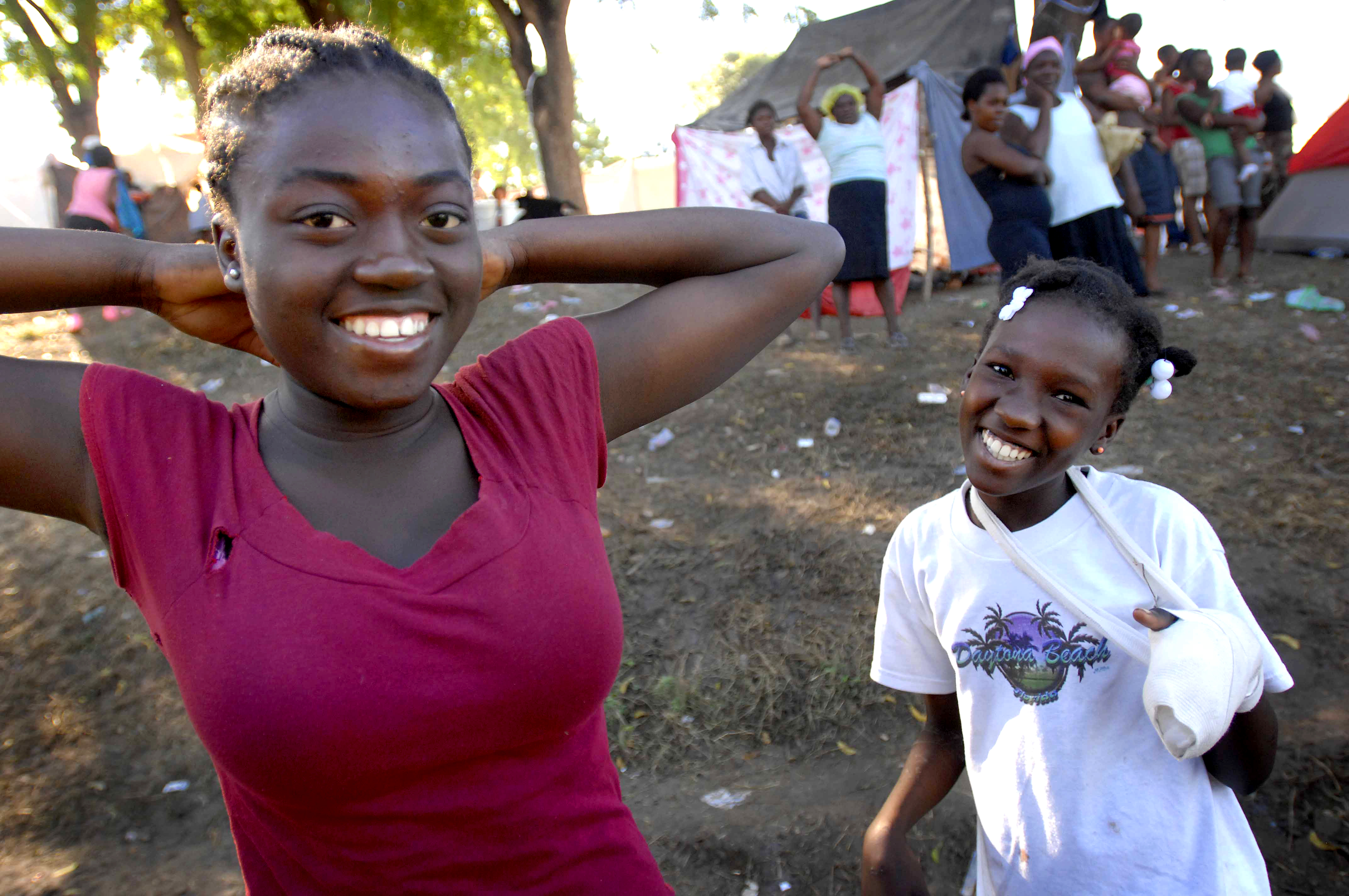 Two girls smile for the camera at a survivor camp in Port-au-Prince, Haiti, Jan. 21, 2010. Military and civilian medical teams scoured the massive tent city today looking for injured who cannot make it to the forward operating base set up by the 82nd Airborne Division's 1st Squadron, 73rd Cavalry Regiment. A humanitarian relief organization has set up a critical care clinic on the base.